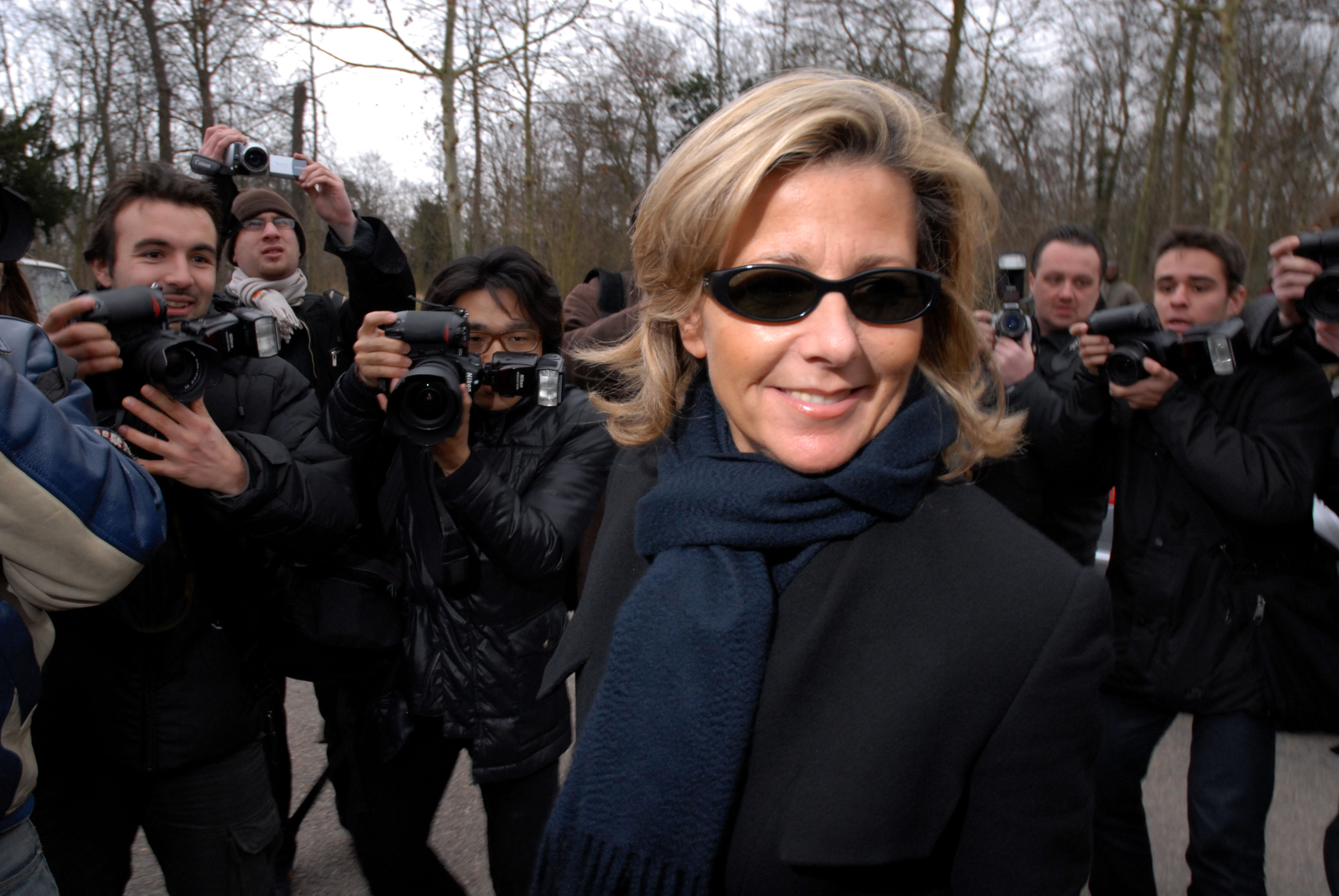 Claire Chazal